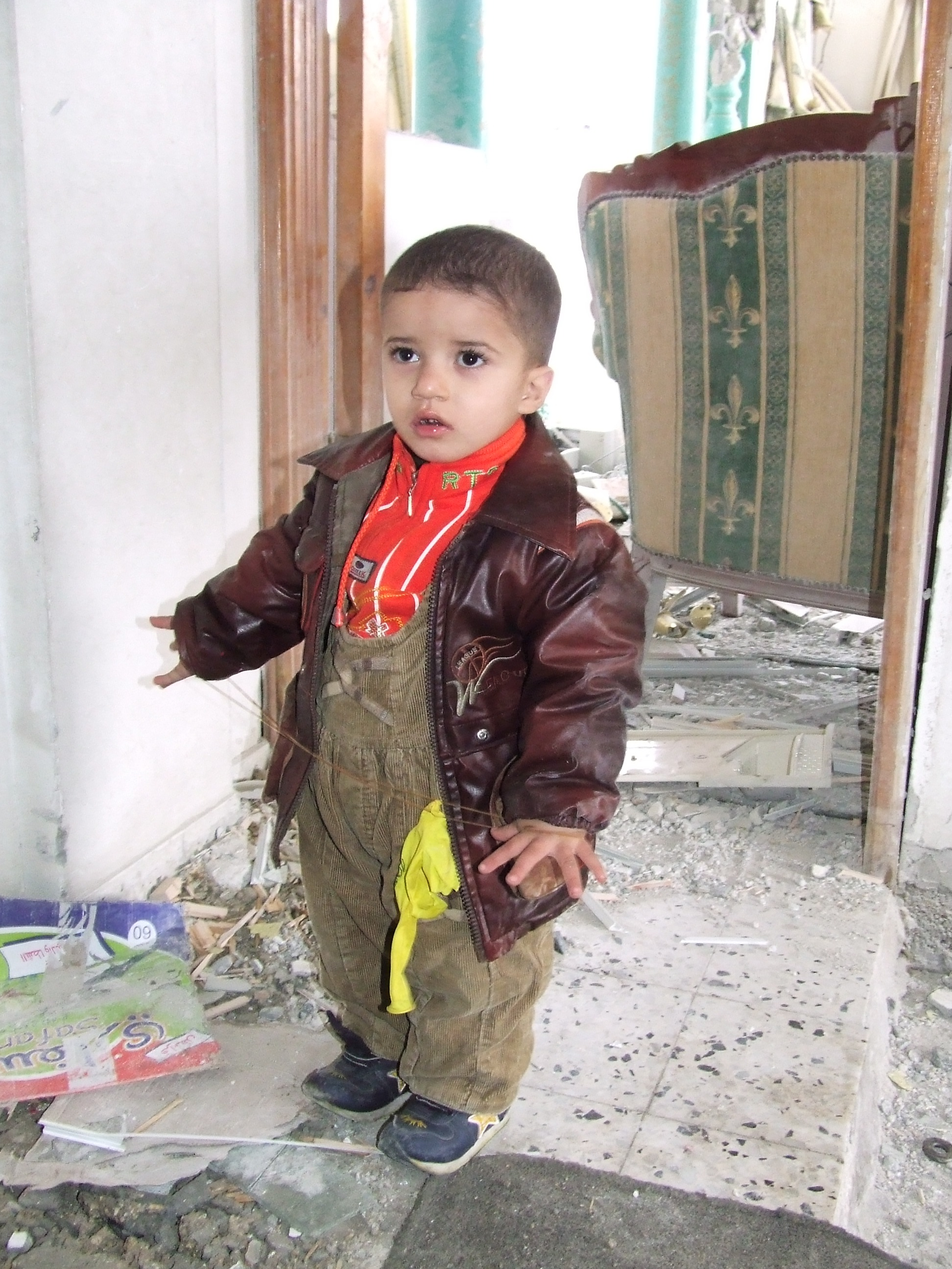 This material was taken on the morning of Thursday 1st January, following an attack on the Shabora refugee camp of Rafah, close to the city centre. This civilian neighbourhood (one of the most densely populated places in the Gaza Strip) was hit during an Israeli air strike shortly before midnight on Wednesday. The missile struck a small park without warning, destroying large numbers of surrounding homes and shops. A 33 year-old woman and a 22 year-old man were killed and nearly 60 people were injured, 18 of them woman and 16 of them children. Several elderly people were also injured, a couple of them seriously. Witnessing the attack from Hi Alijnina, hundreds of metres away, an F-16 fighter jet was heard in the sky followed by a massive explosion. The wall of our house facing the direction of the attack shook and it seemed as though the windows were about to blow in. The wail of multiple ambulances was heard for a long time afterwards.